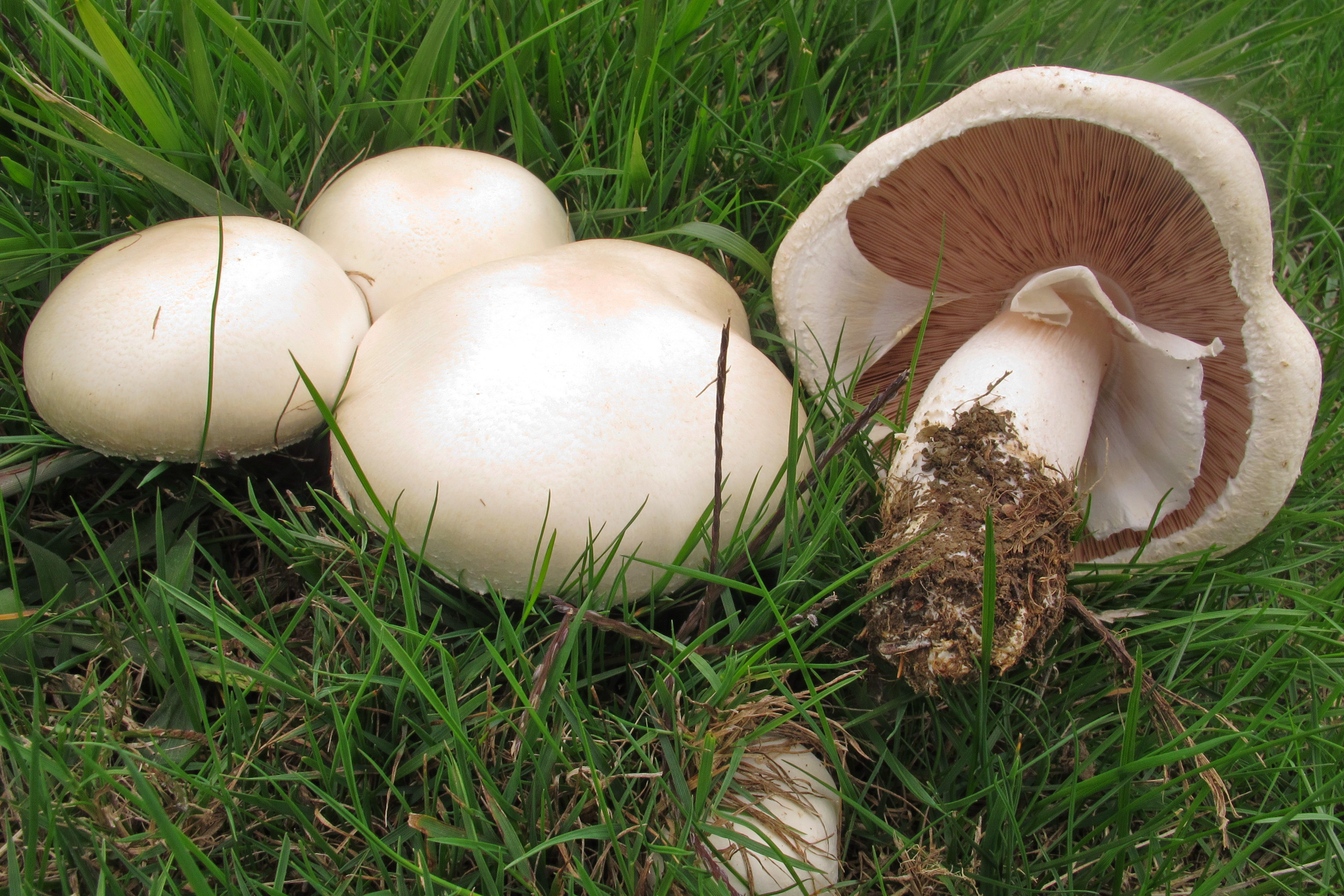 Agaricus arvensis Schaeff.